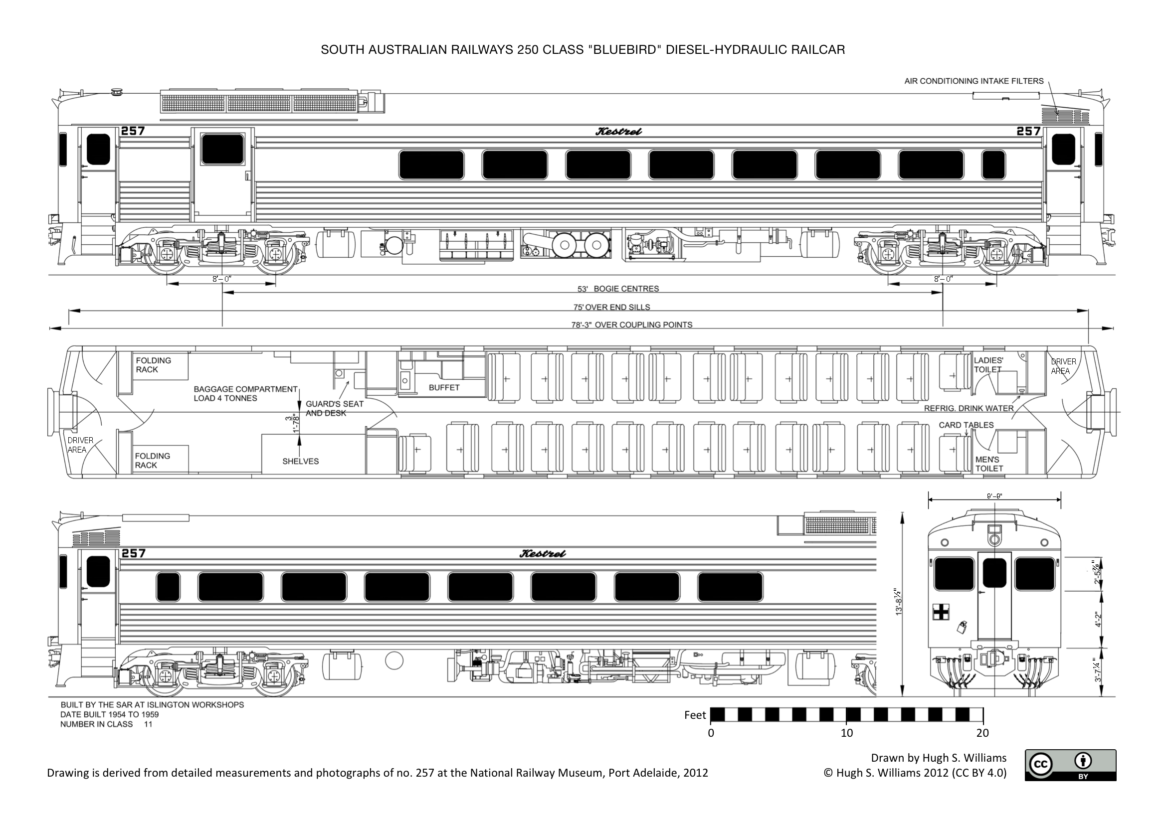 Drawing of "Bluebird" railcar 250 class (second-class passenger) power car no. 257, "Kestrel", designed and built by the South Australian Railways, which entered service in 1955. It is shown in the configuration as of 2012 at the National Railway Museum, Port Adelaide, South Australia.